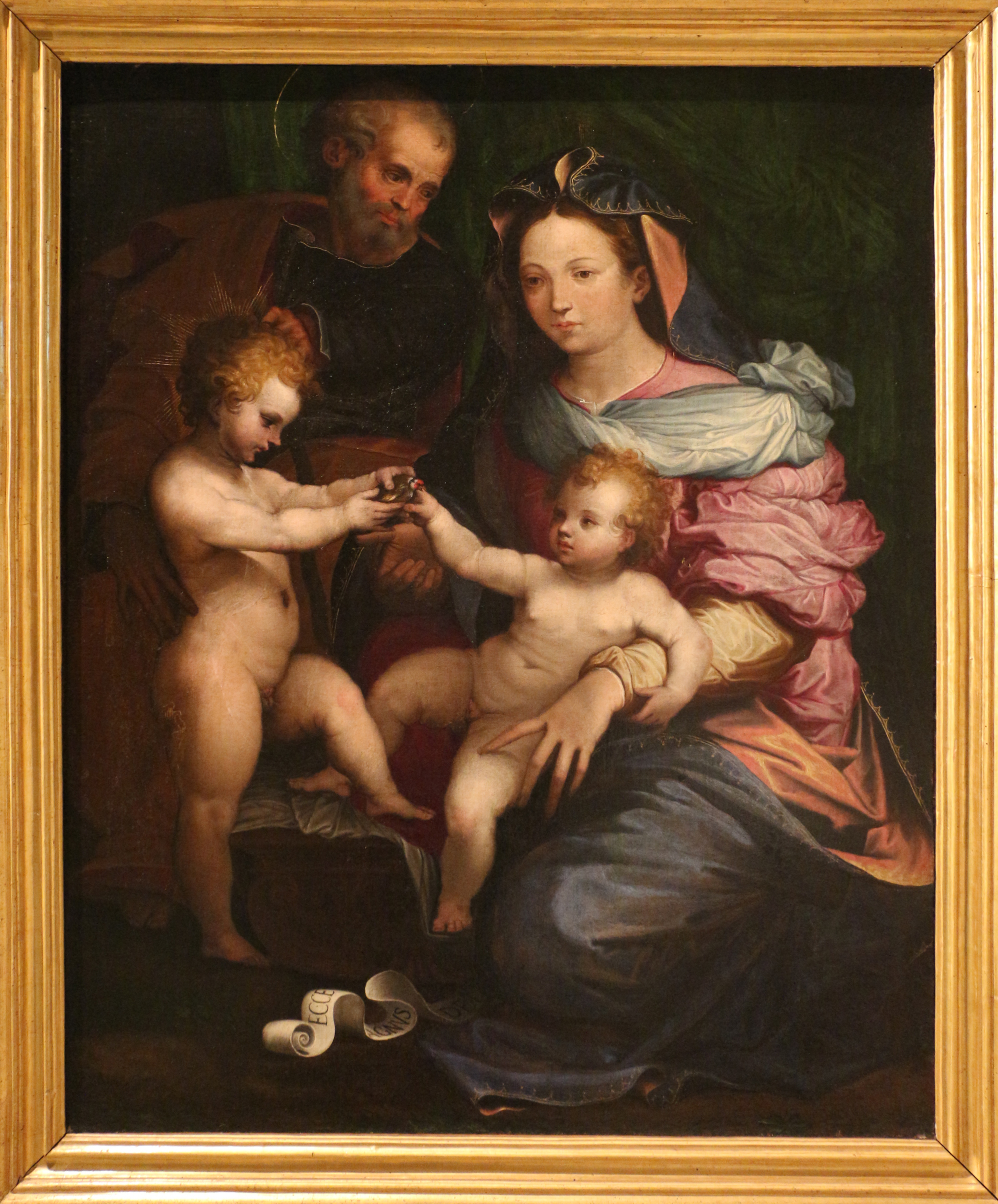 Sacra famiglia con san Giovannino